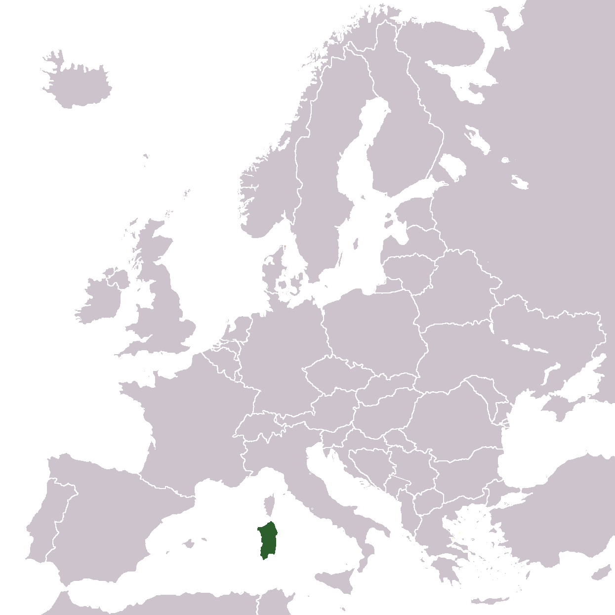 Location map for Sardinia, based on Europe location F.png, with Montenegro added.